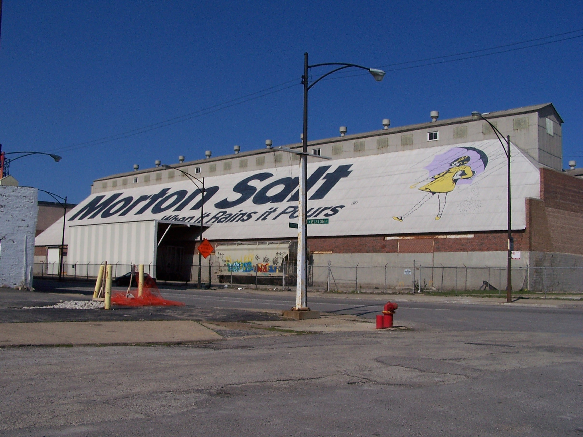 Morton Salt facility in Chicago, Illinois. Camera looks north across Elston Avenue. Taken on May 1, 2004.